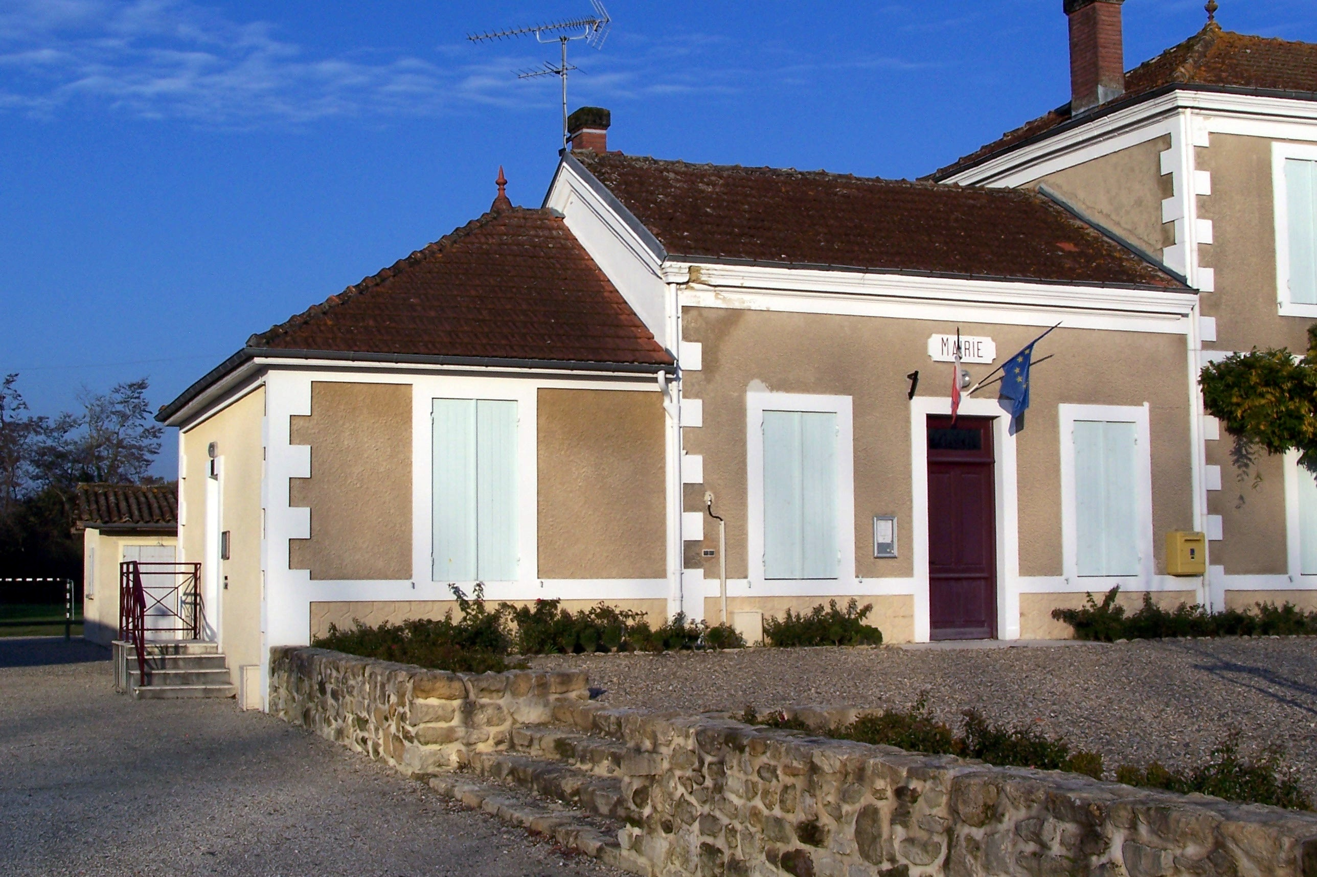 Kirsche of Aubiac (Gironde, France)